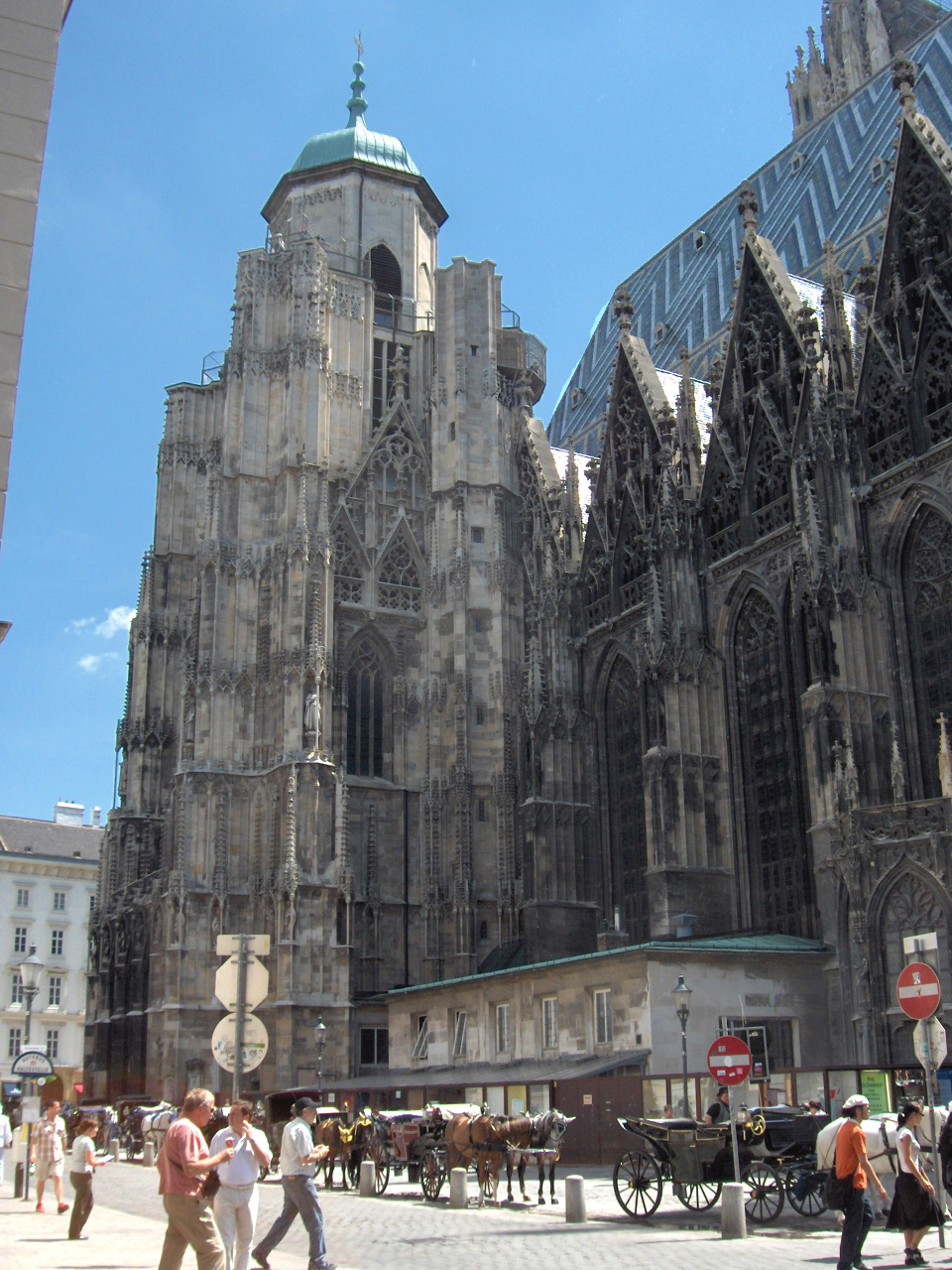 North tower of the Stephansdom in Vienna, Austria